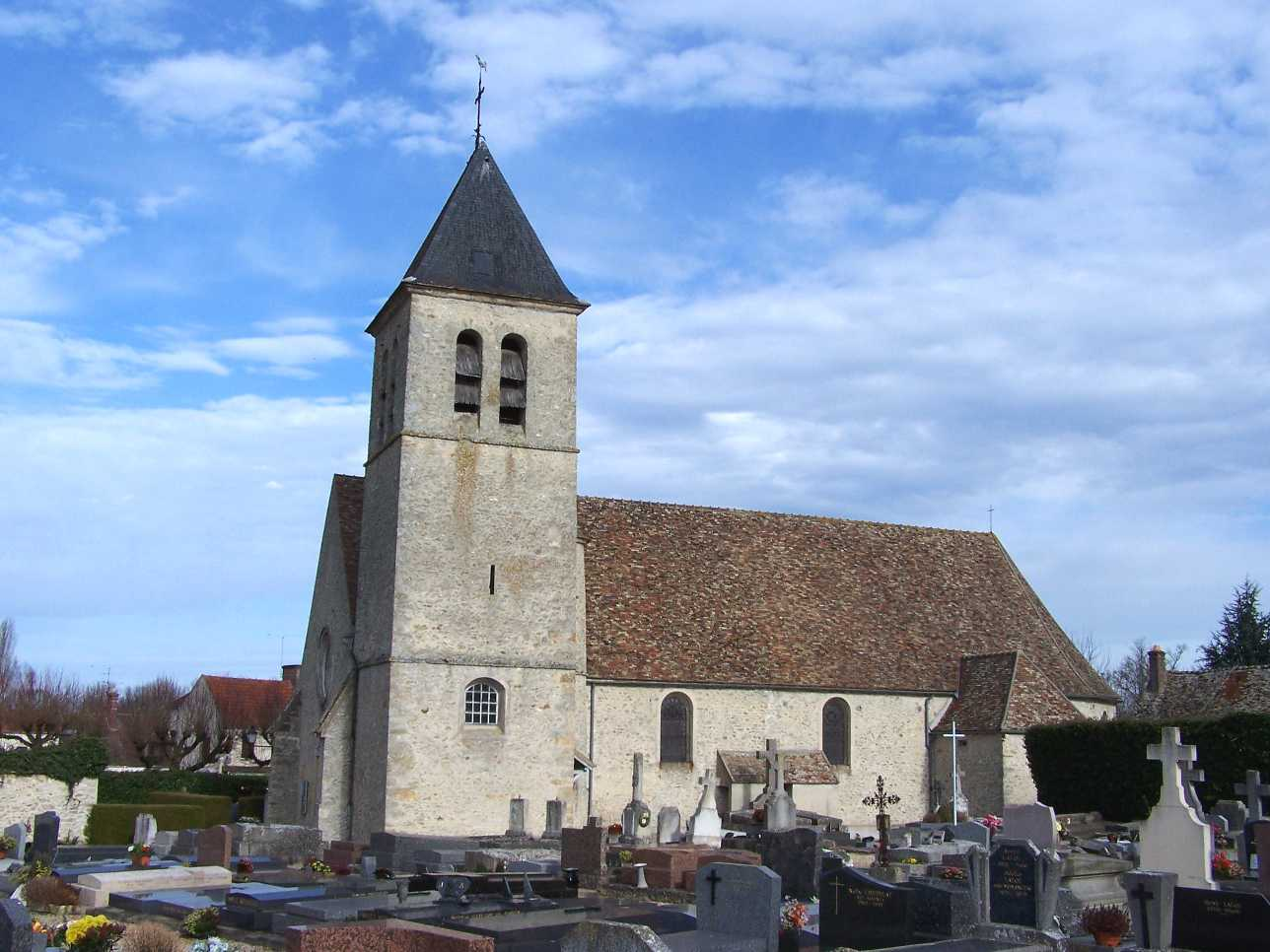 Church of Les Mesnuls (Yvelines, France)